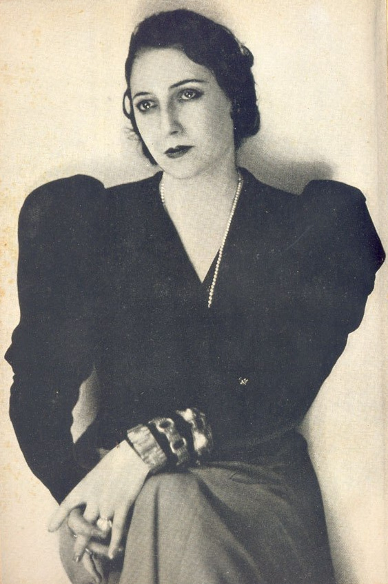 A promotional image of Juana de Ibarbourou scanned from a copy of her 1934 book Estampas de la Biblia.